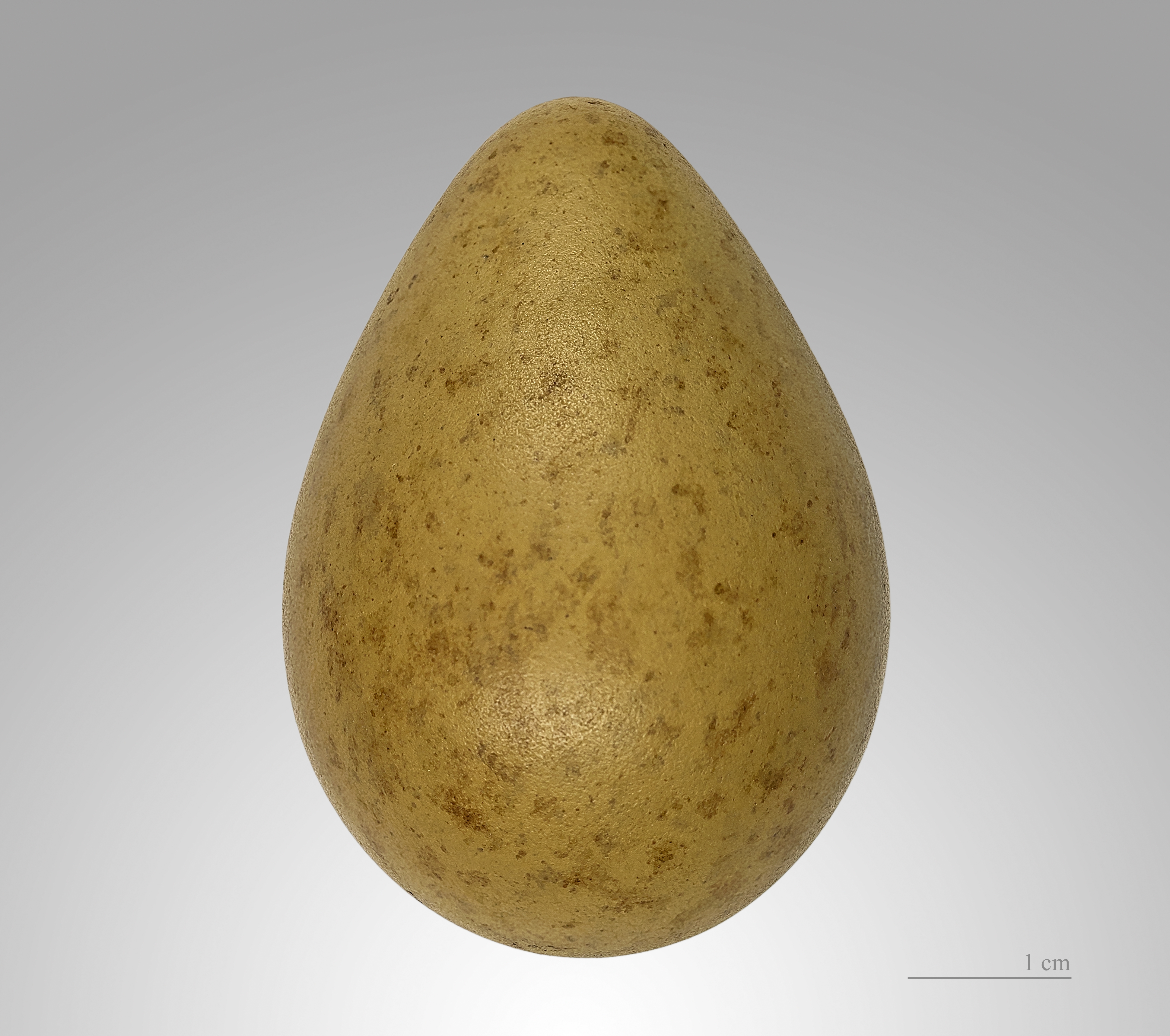 Egg of Black-tailed Godwit. Collection of Jacques Perrin de Brichambaut.